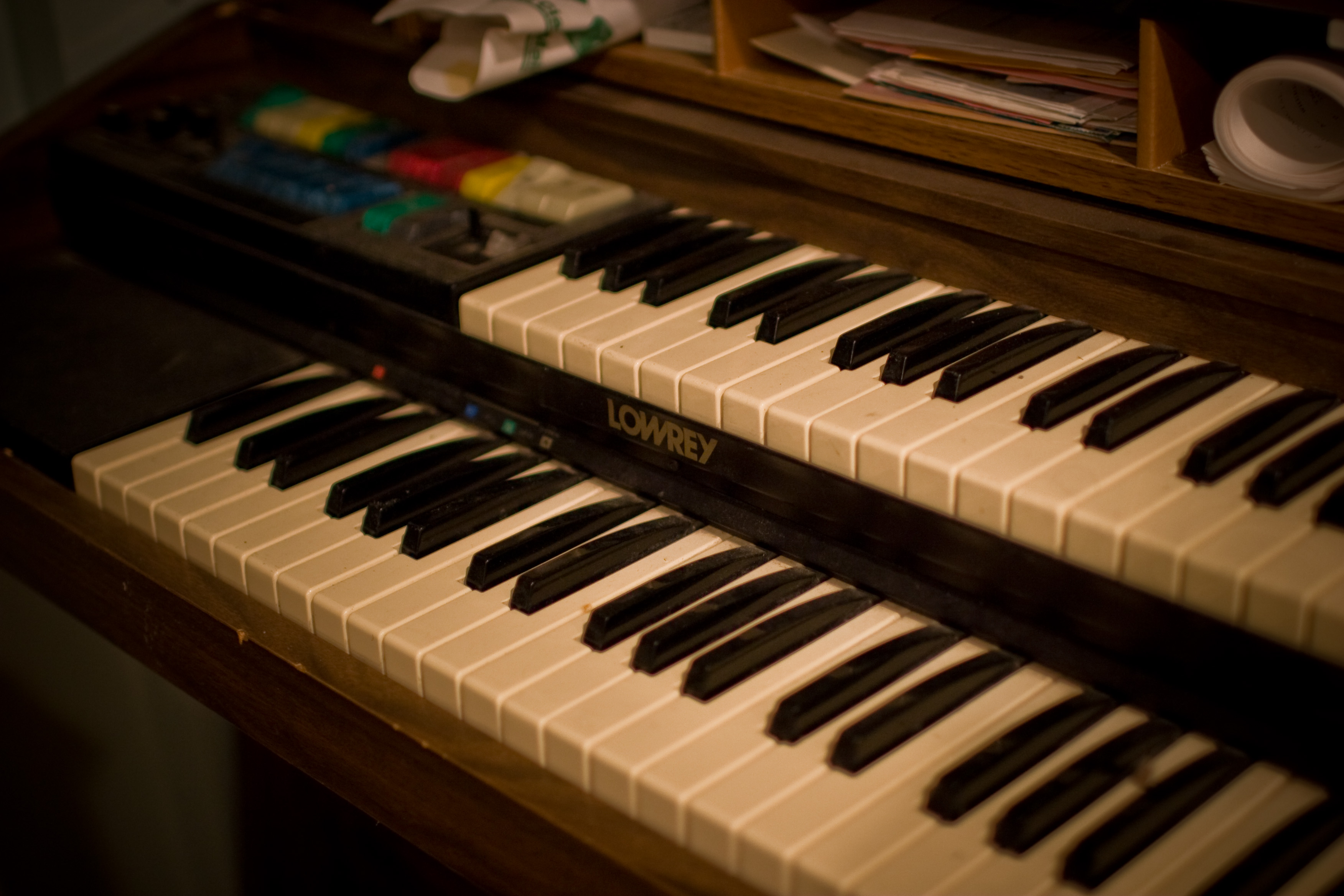 first song I learned to play...theme from Hawaii 5-0 Note: estimated model name is: Lowrey L100 Carnival Reference David C. Lovelace (between 2005 and 2007). Lowrey L100 Carnival (image). Dave's Pile of Synths, .